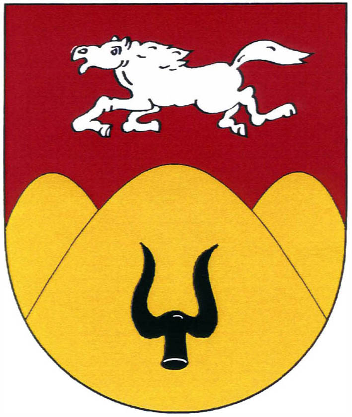 Municipal coat of arms of Bělušice village, Most District, Czech Republic.